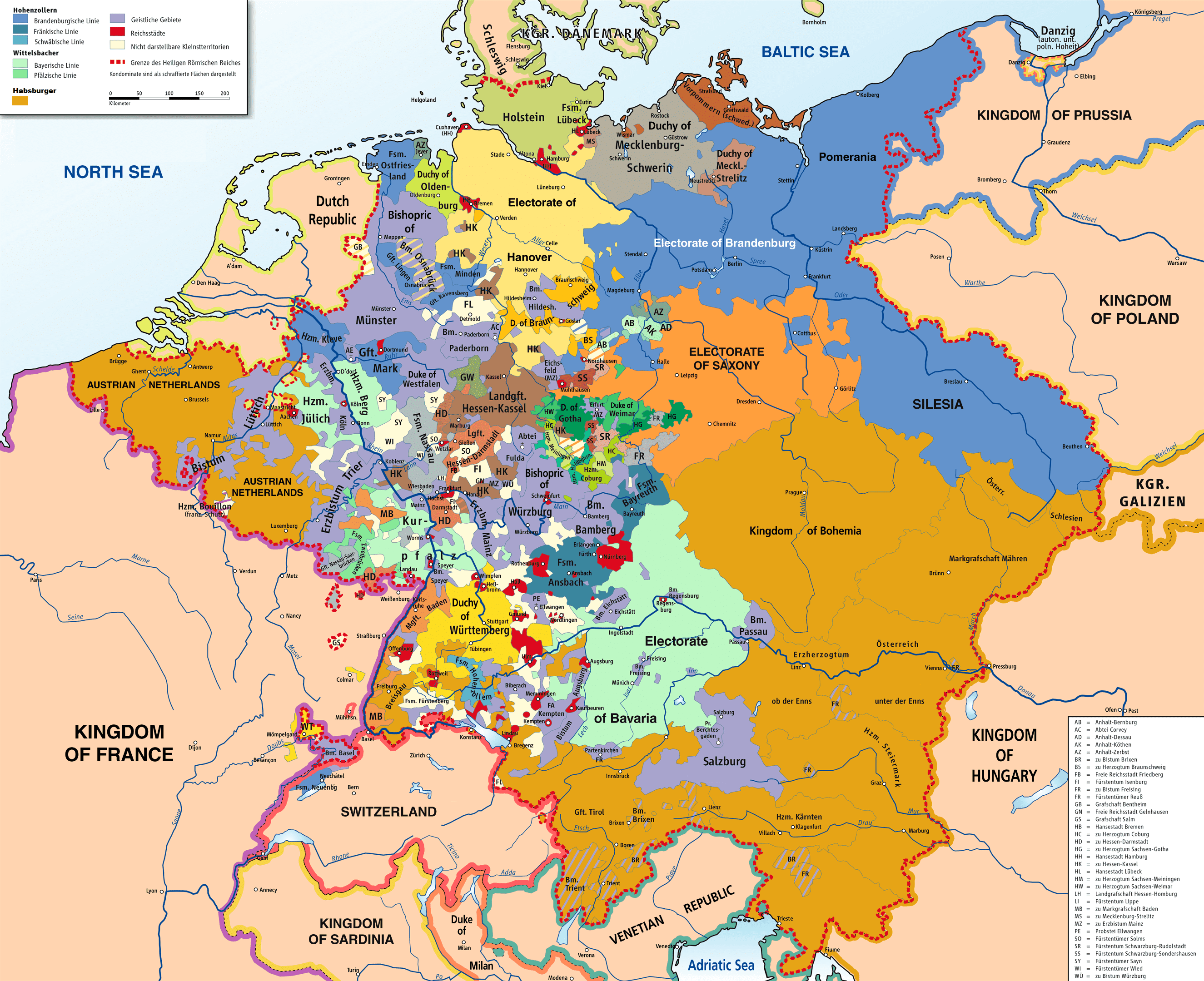 Map of the Holy Roman Empire, 1789, translated (somewhat) from original German version on Wikipedia Commons